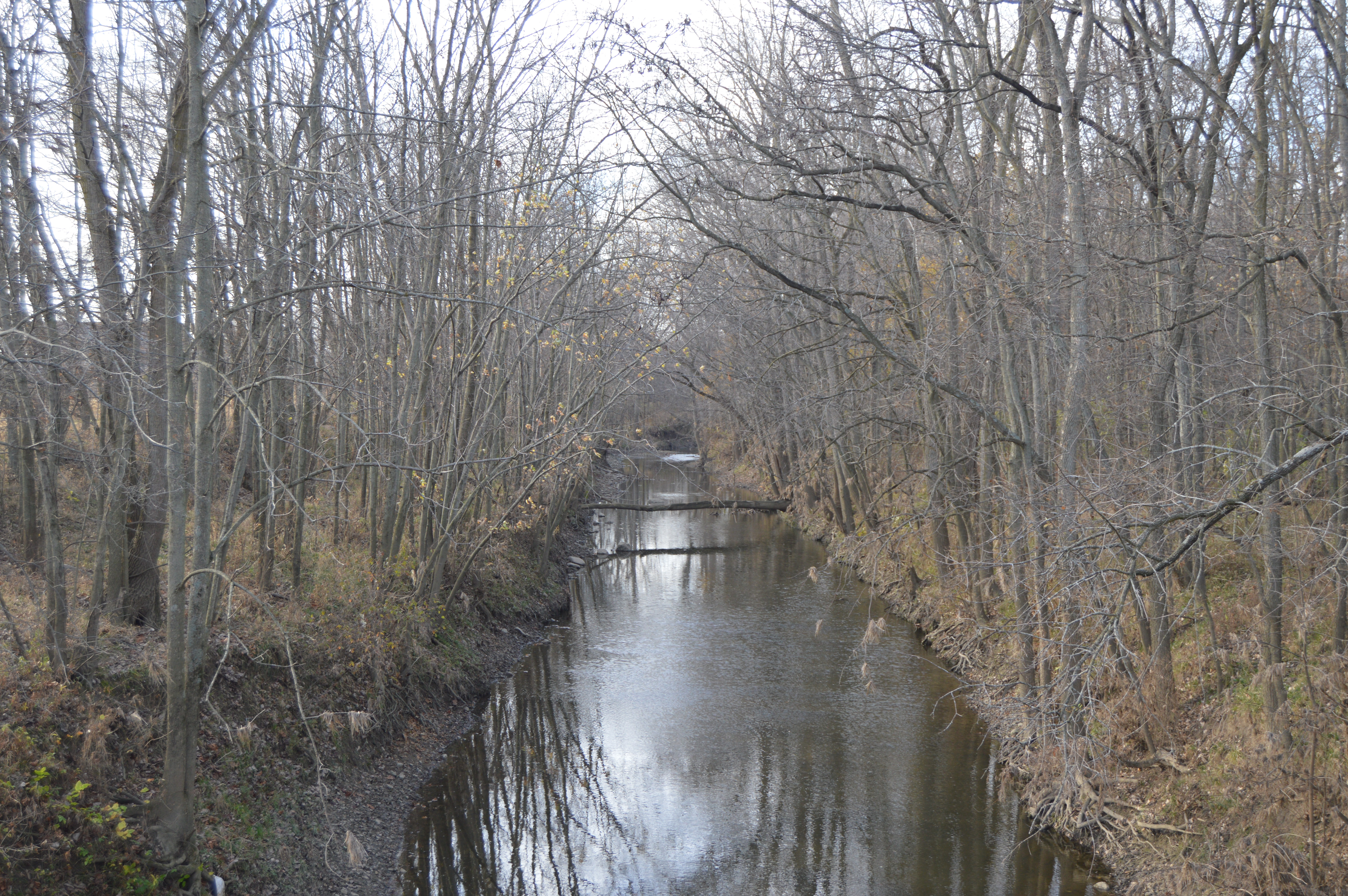 Looking upstream along the Stillwater River from the Beisner Road bridge east of Ansonia, in far northwestern Richland Township, Darke County, Ohio, United States.